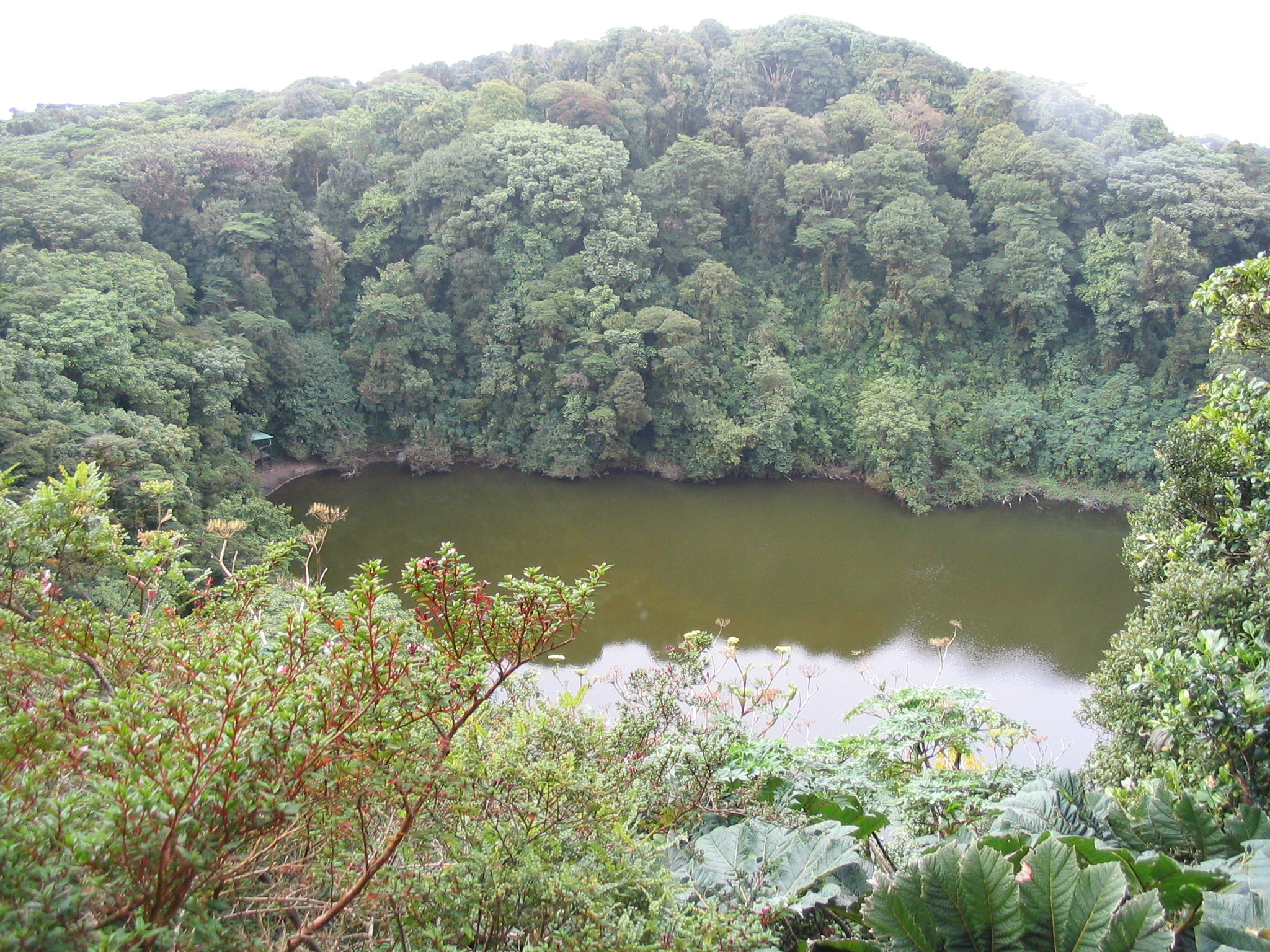 One of Barva Volcano's crater lakes "Barva lagoon"